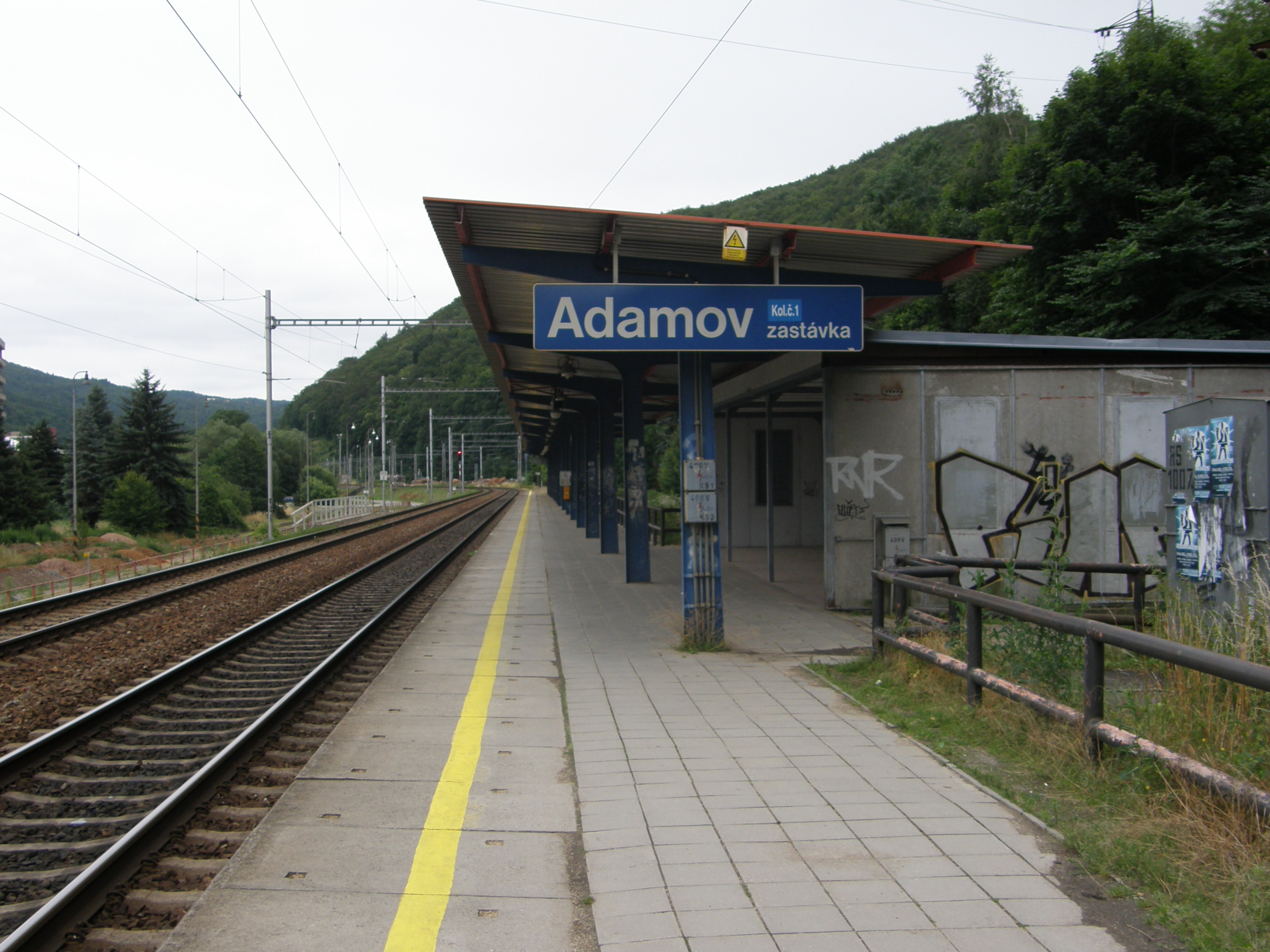 Train station in Adamov